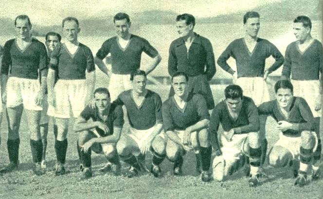 As Roma 1933